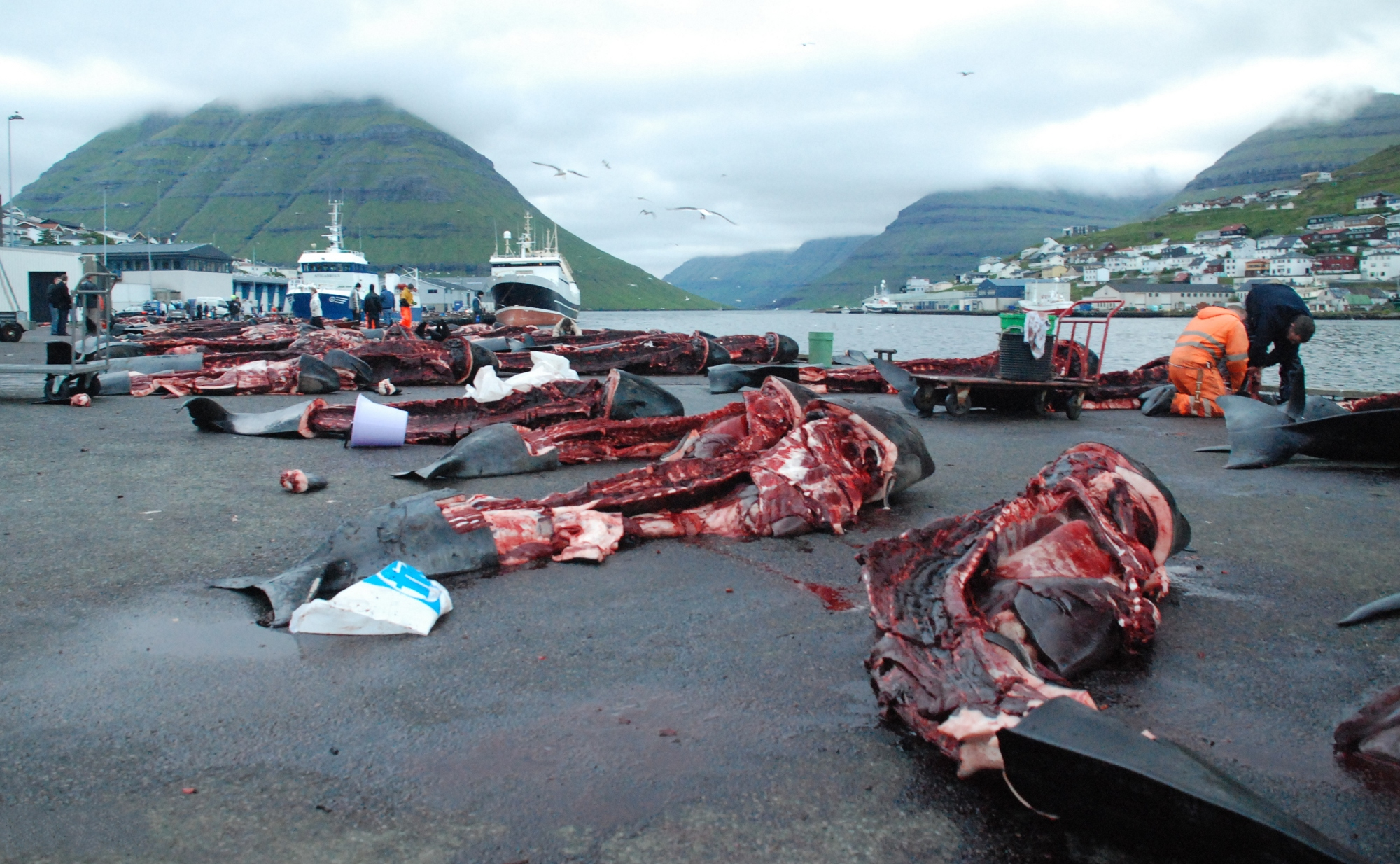 grind in Klaksvik - Faroe islands july 2010